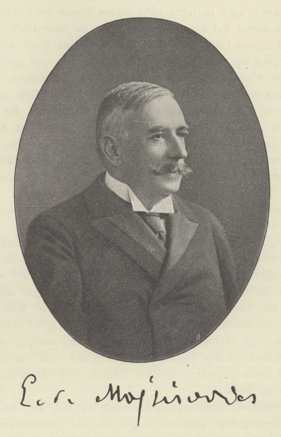 portrait Johann August Edmund Mojsisovics von Mojsvár (1839-1907), Austro-Hungarian geologist and palaeontologist